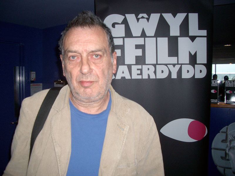 Stephen Frears at the 2006 Cardiff Film Festival.